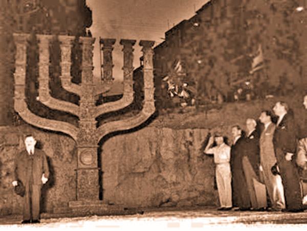 Independence Day celebration of 1956: Unveiling ceremony of the Knesset Menorah by Benno Elkan, given to Israel by the British Parliament; left is the speaker of the Knesset, Yosef Sprinzak